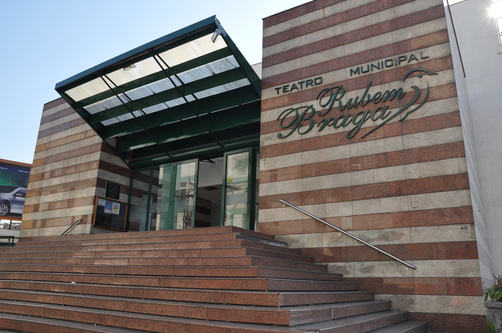 Rubem Braga Municipal Theater, in Cachoeiro de Itapemirim, Espírito Santo, Brazil.